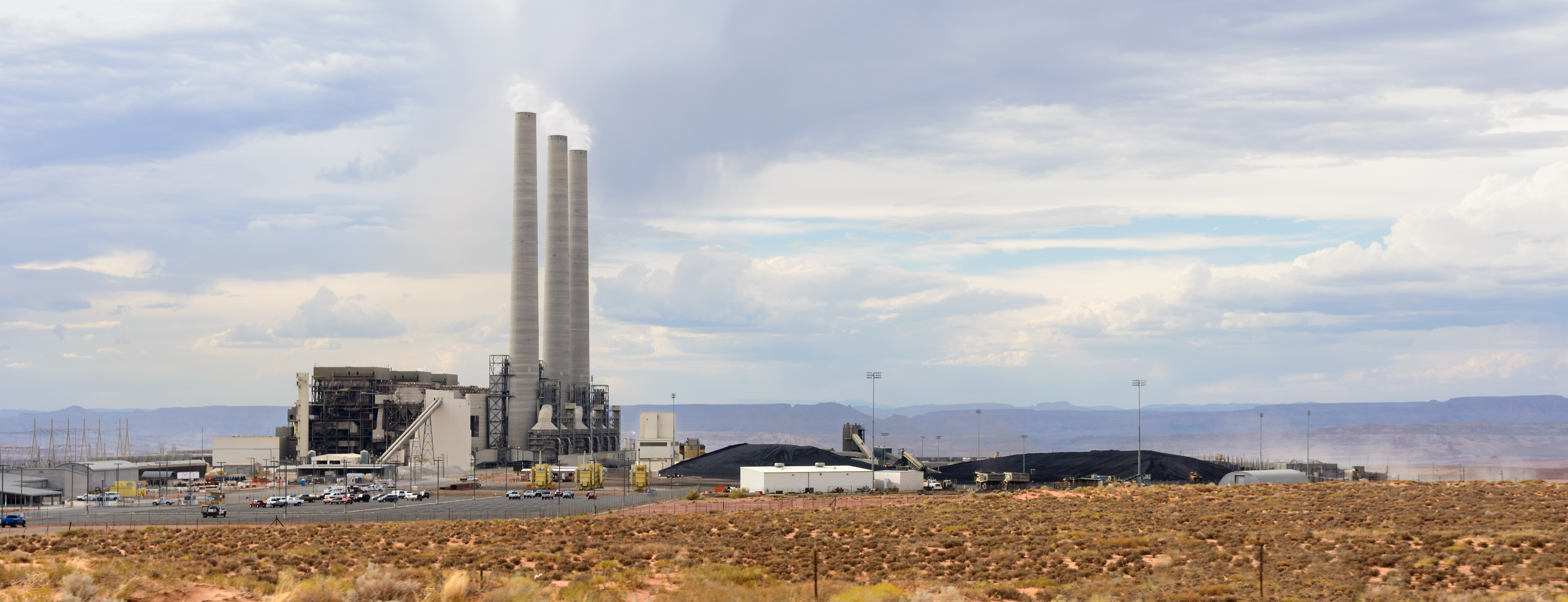 The Navajo Generating Station near Page, Arizona, United States.